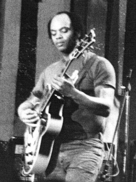 American jazz and session guitarist Eric Gale in Montreux, Switzerland.